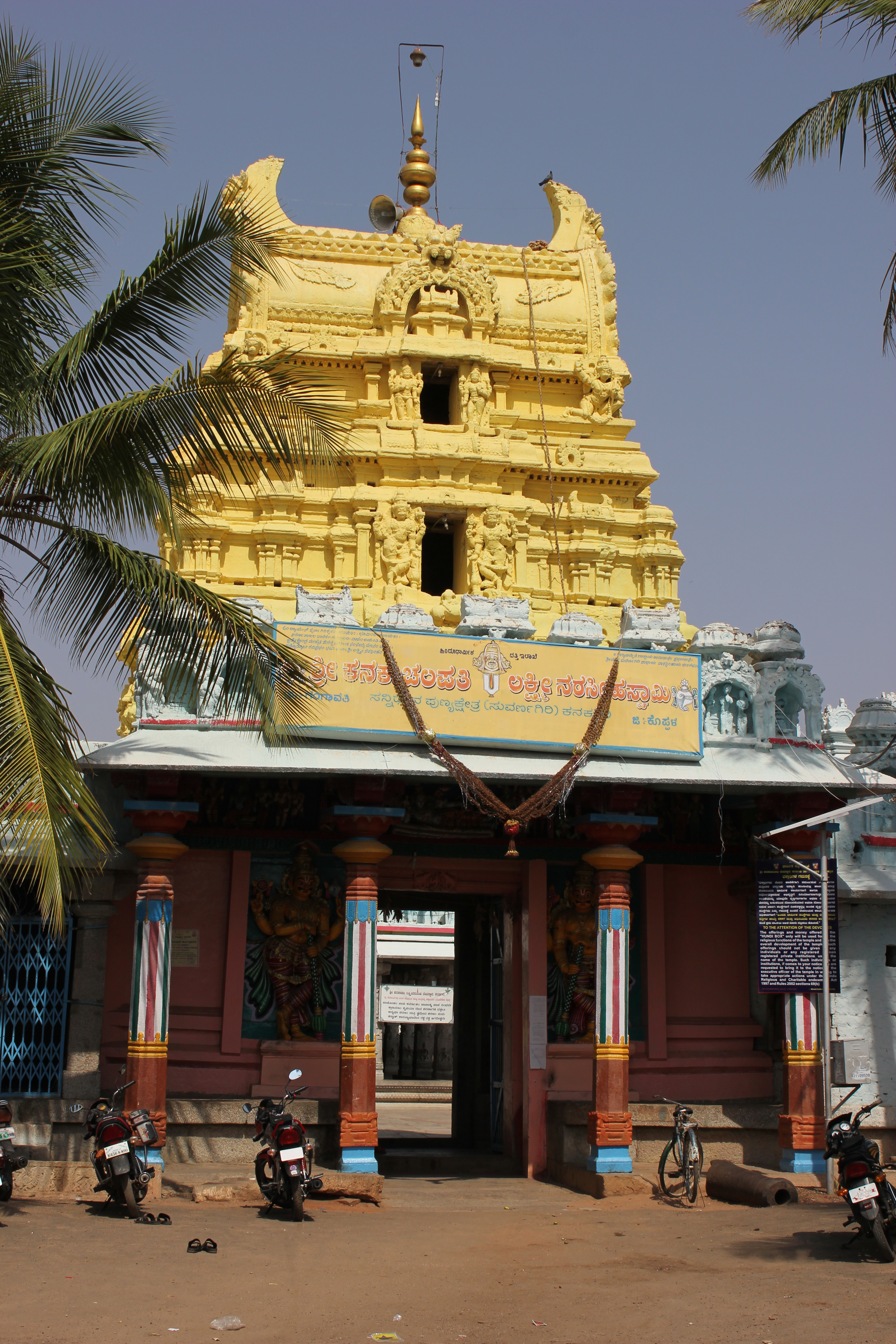 This photograph was taken by me at the Kanakachalapathi temple at Kanakagiri in the Koppal district of Karnataka state, India. The temple is a 16th century Vijayanagara empire era construction.